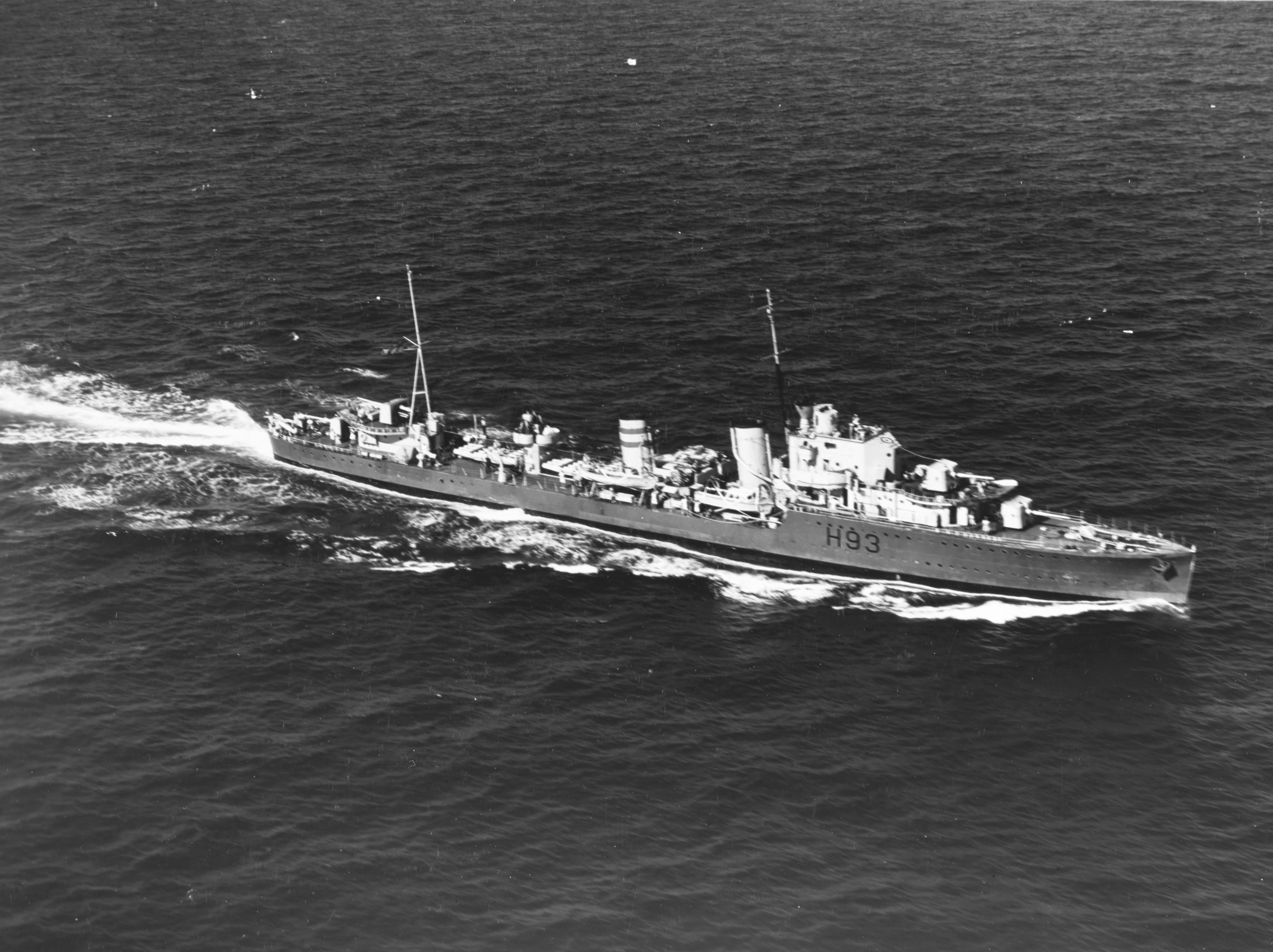 The Royal Navy destroyer HMS Hereward (H93), photographed by a U.S. Army aircraft, 25 km south of Alligator Light, Florida (USA), on 20 December 1939.